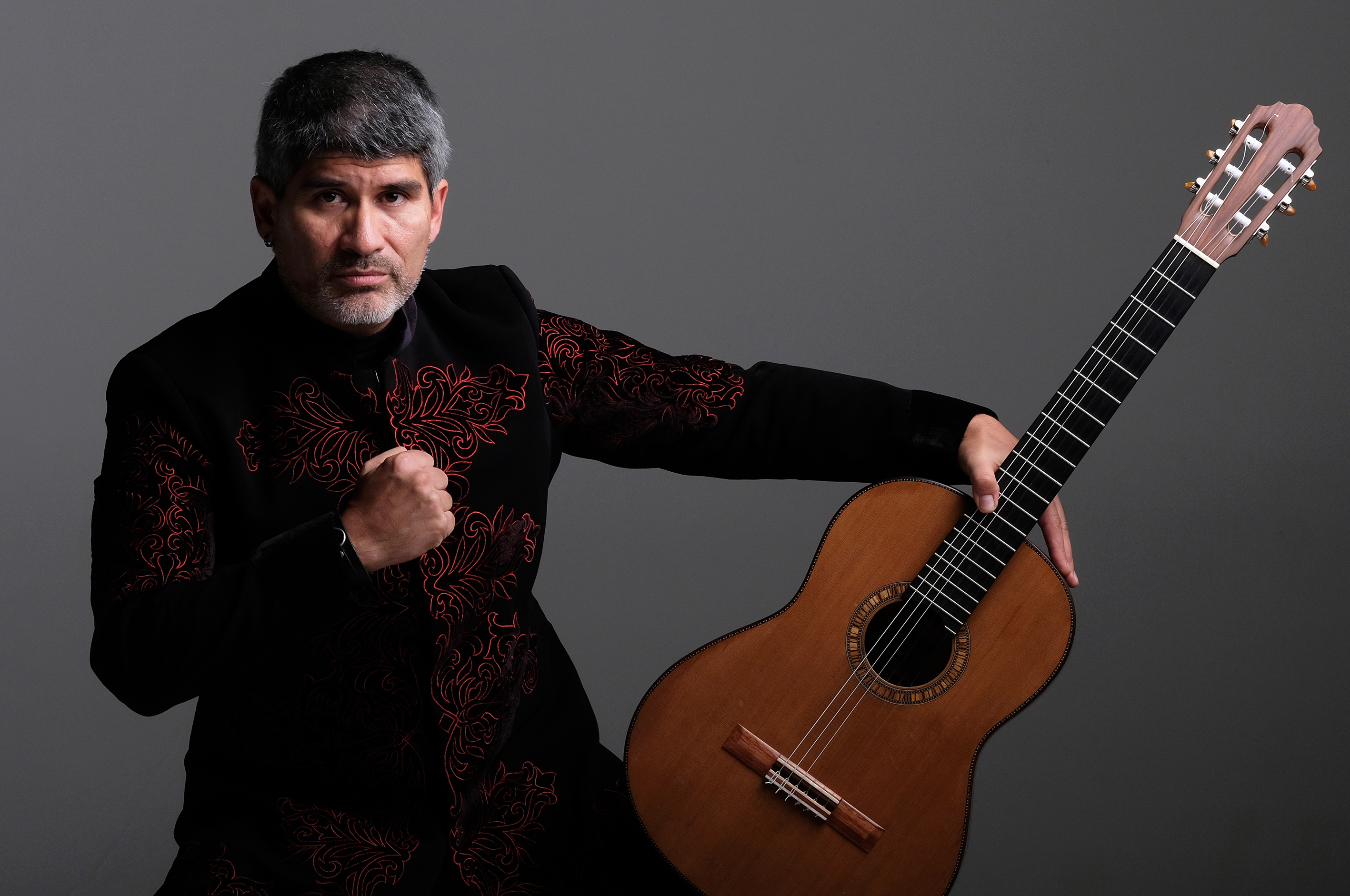 picture of pirai vaca